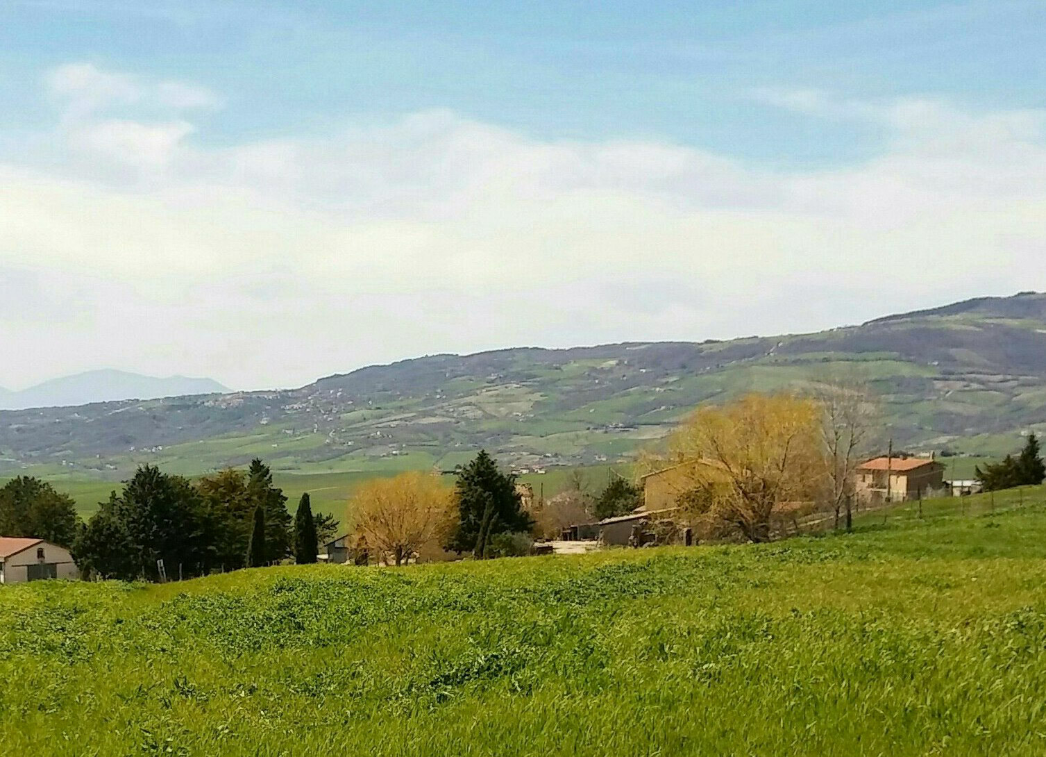 Contrada Sant'Eleuterio and Miscano Valley viewed from Aequum Tuticum, 10 km north of Ariano Irpino